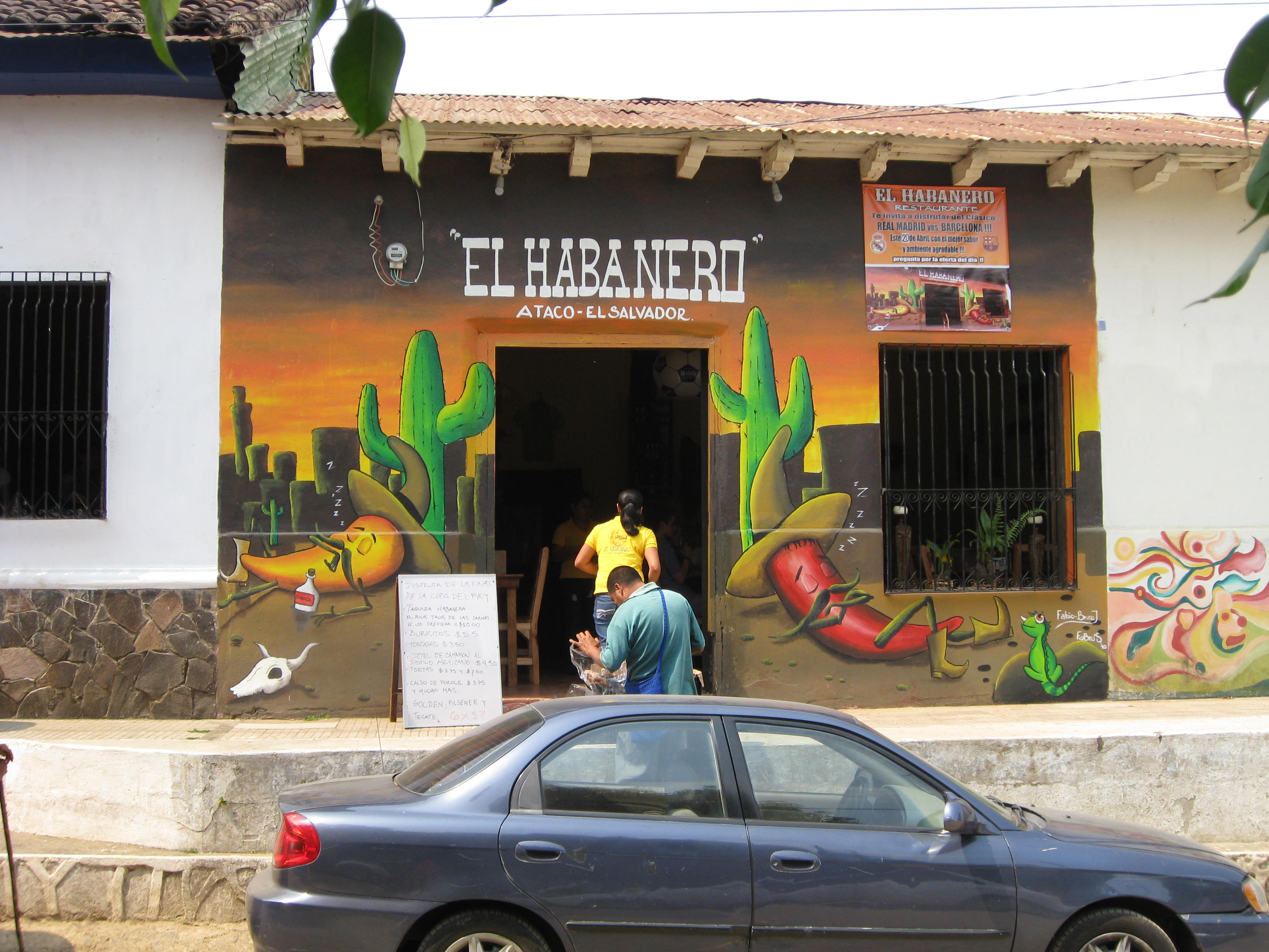 Mexican Restaurant